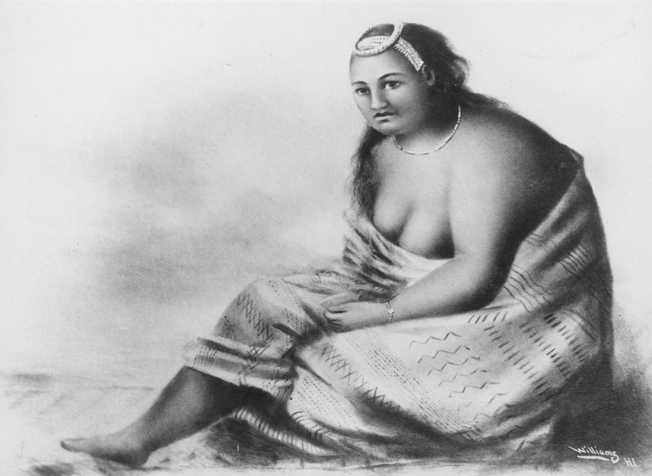 Original artwork by Louis Choris. Reproduced photographically by J. J. Williams with charcoal work by J. Ewing.